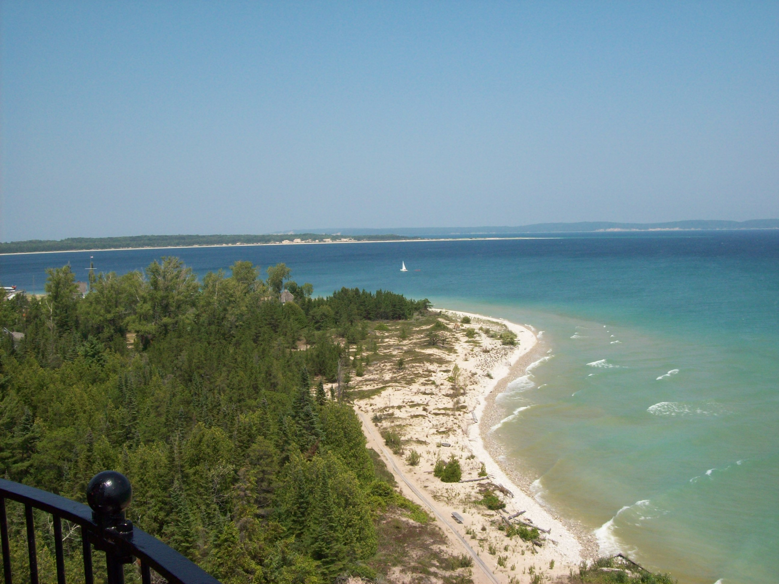 The view from the catwalk of the South Manitou Island Lighthouse in Leelanau County, Michigan, USA.